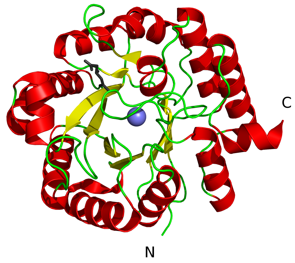 Monomer cartoon structure of the human HMG-CoA lyase. The Mg2+-ion, the N- and the C-terminus are highlighted. In grey is the hydrolyized product of the inhibitor 3-HG-CoA (3-hydroxyglutaryl-CoA). Data used form pdb-file 2cw6.